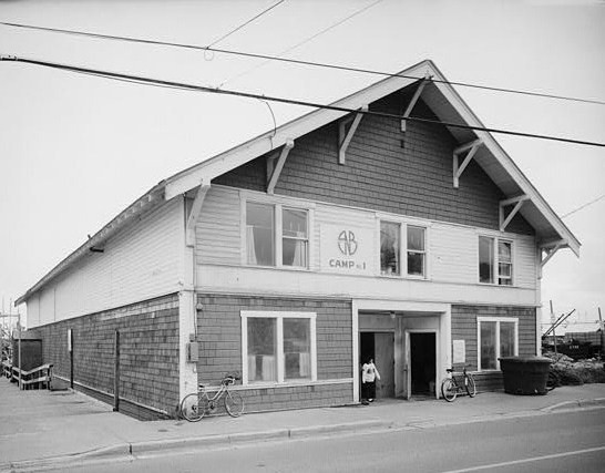 Image:Alaska Native Brotherhood Hall, Sitka Camp No. 1, Katlian Street, Sitka, (Sitka Borough, Alaska)(cropped)